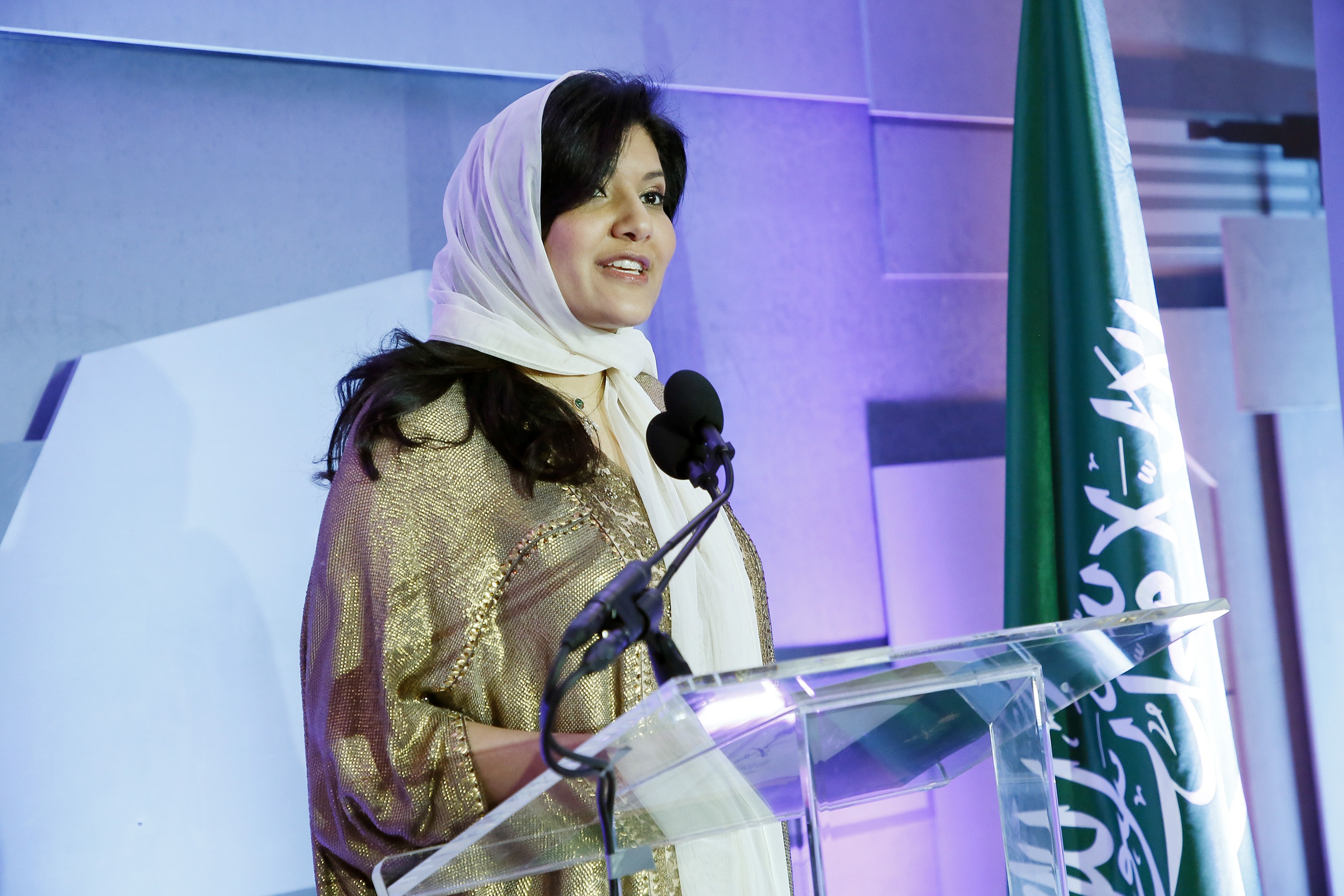 Princess Reema bint Bandar, Saudi Ambassador to the United States of America, delivering an address at an event honoring the 75th anniversary of Saudi-US relations Washington, DC.